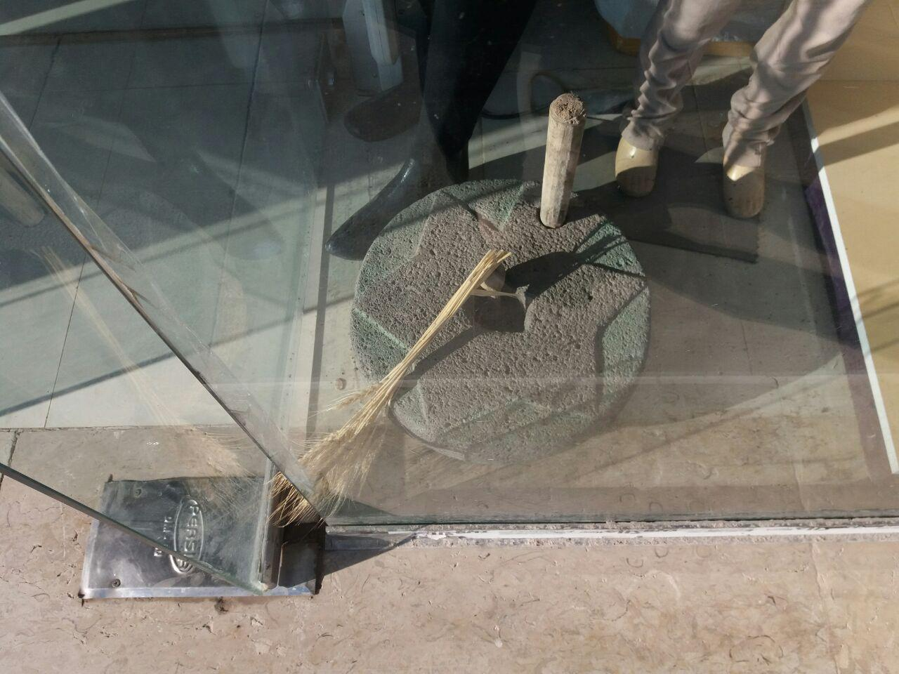 Millstone in Jolfa, Iran